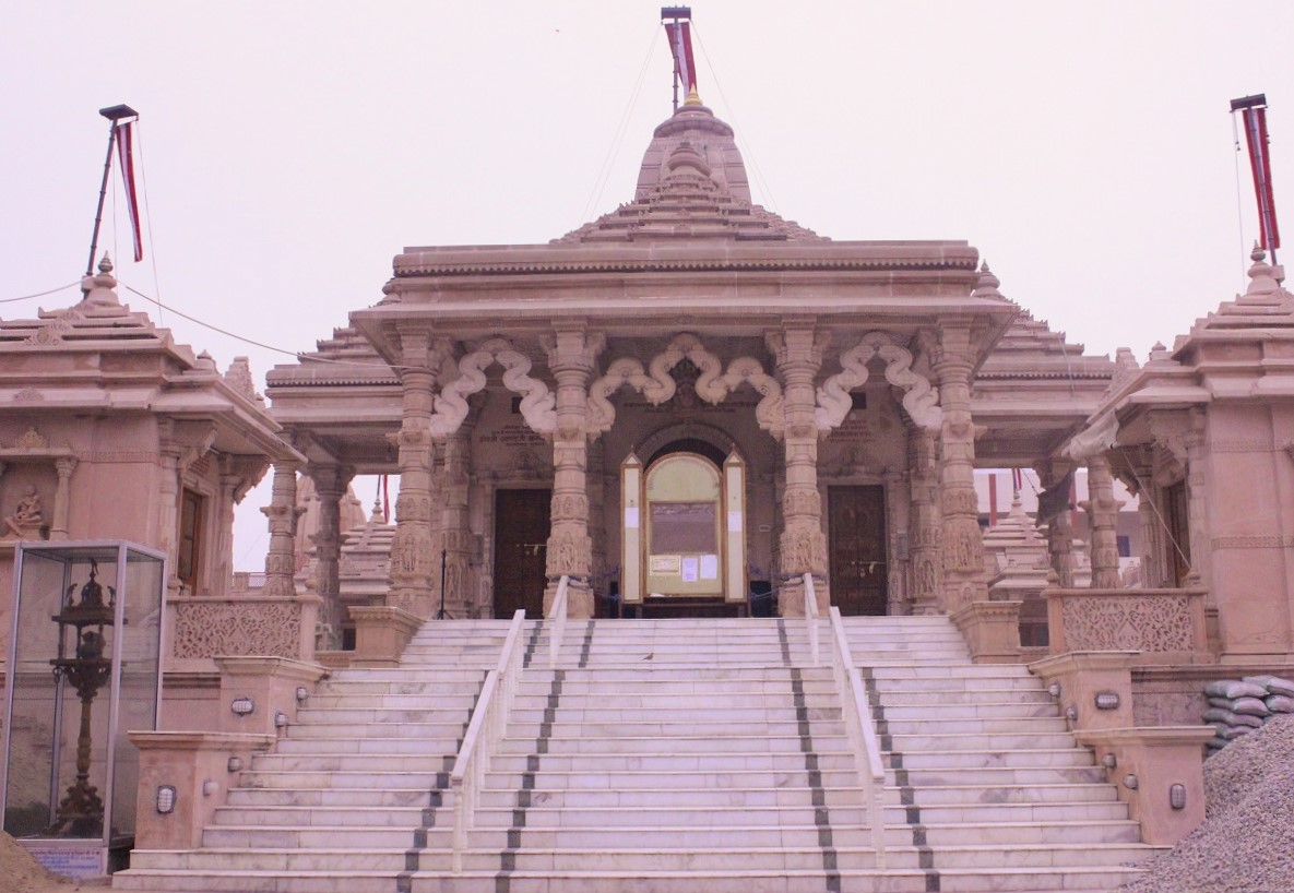 Jain Temple (Jain Mandir) in Bhelupura in Varanasi